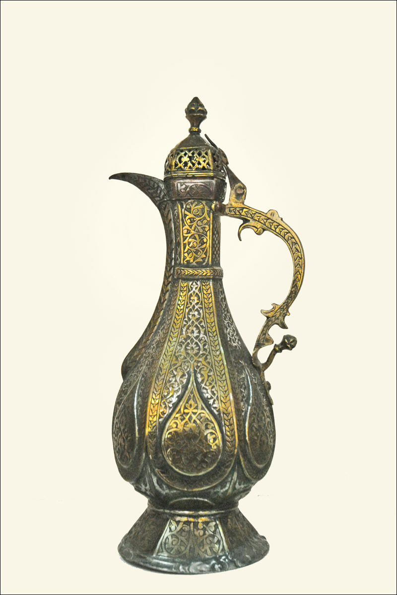 Oftoba - Water-vessel Kokand early 19e century